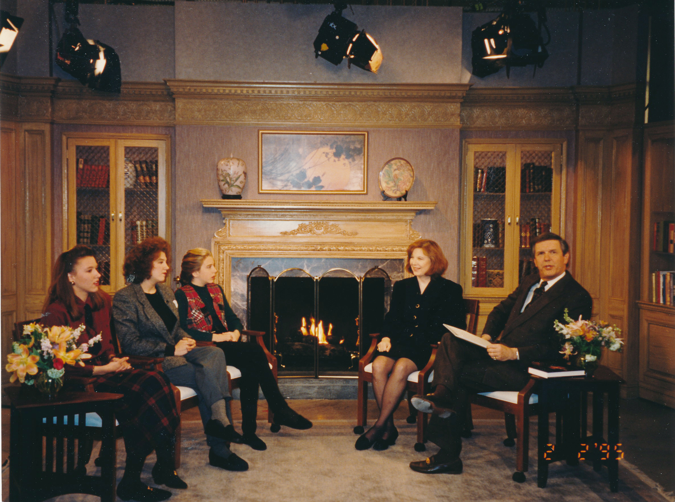 Gay Courter and teens on Good Morning America with Charles Gibson